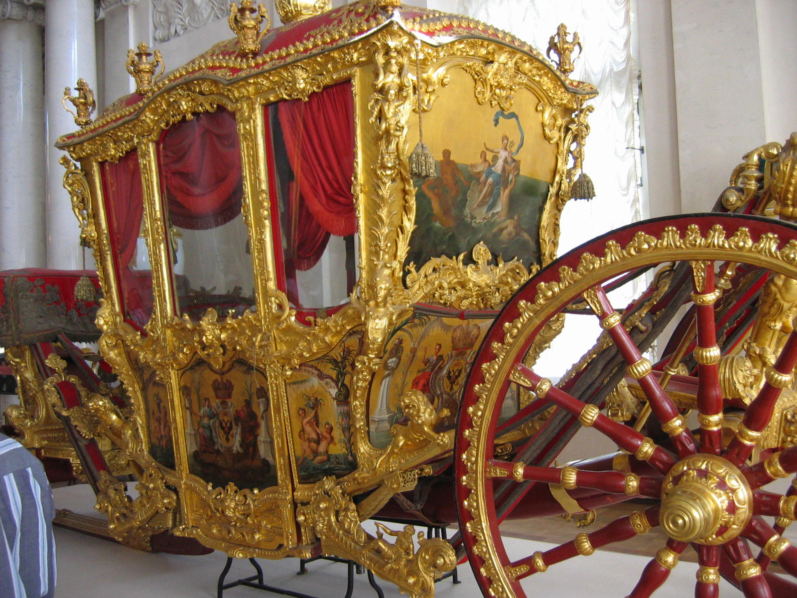 The Great Coach stems from the early 18th century. It was used for coronations, including Catherine the Great's. During WWII it was badly damaged by shrapnel from a shell that hit the Winter Palace storerooms. It was restored to its previous grandeur in 1991.